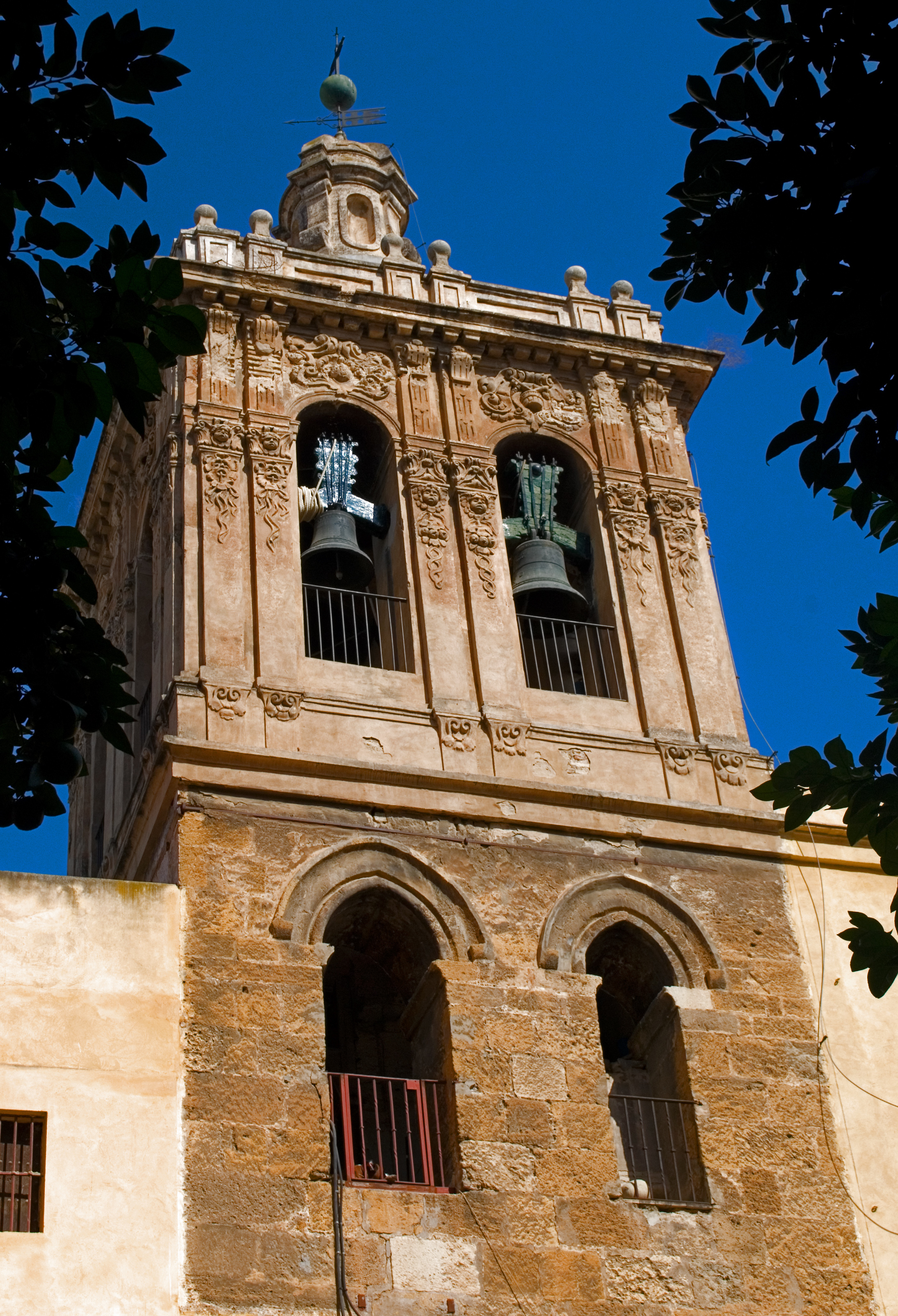 Church of Salvador, Seville